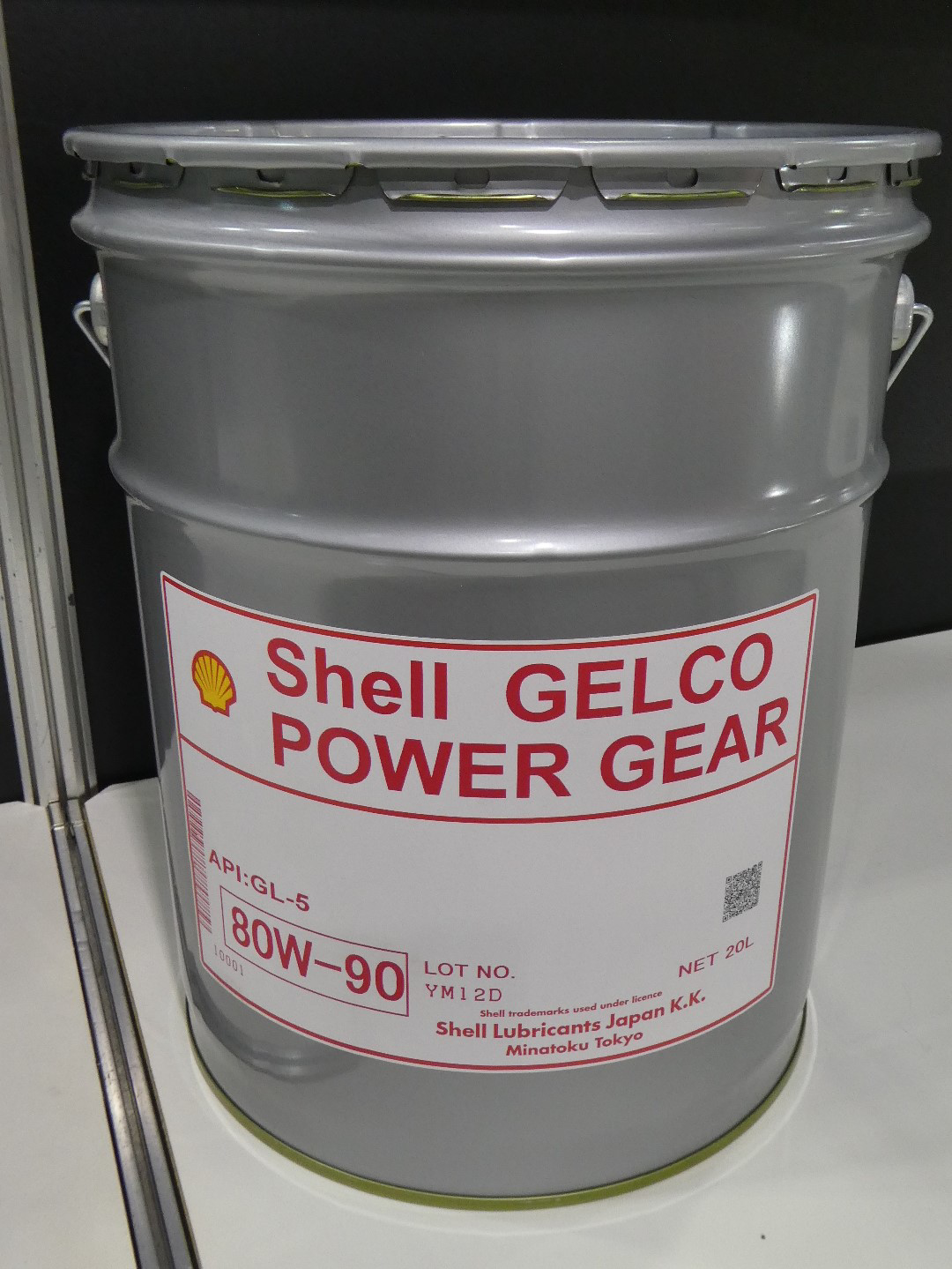 Shell Lubricants Japan of Gear Oil namly Shell GELCO POWER GEAR